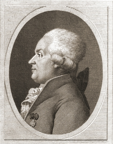 Claude-Carloman de Rulhière (1735–1791), French poet and historian.